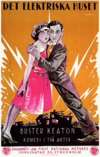 Poster for the film Electric House, 1921.